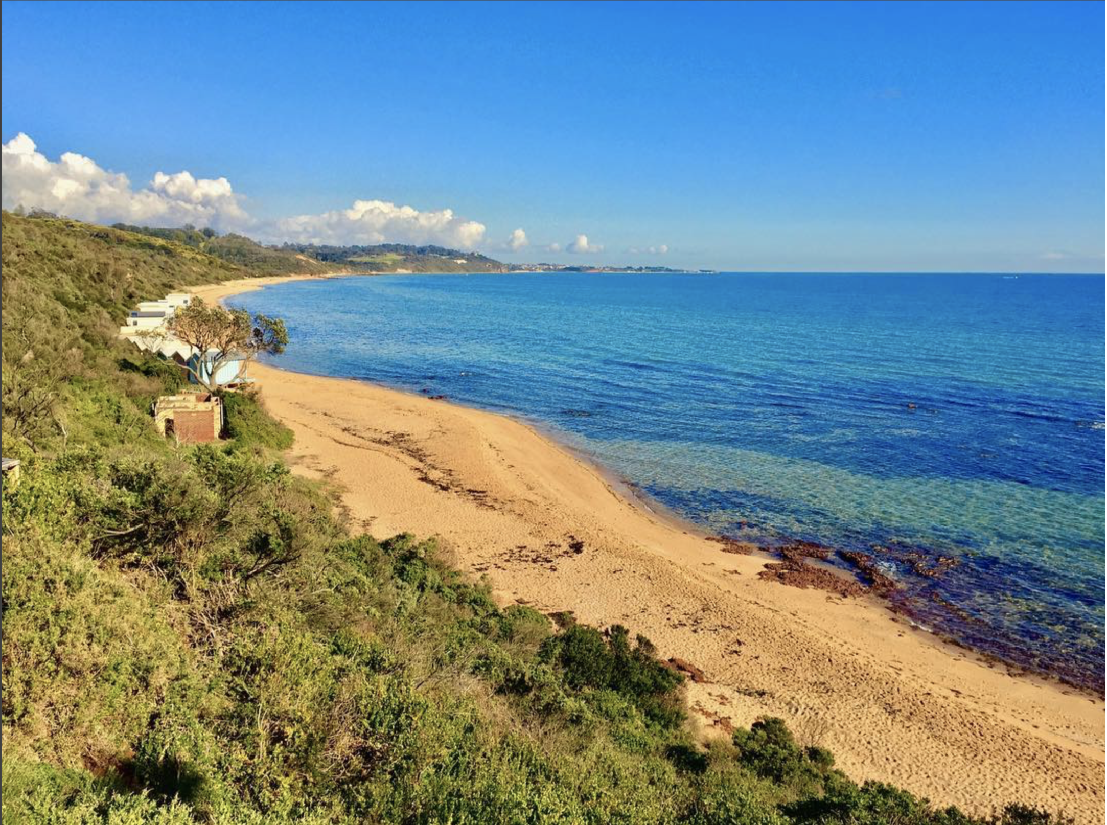 Moondah Beach Mount Eliza